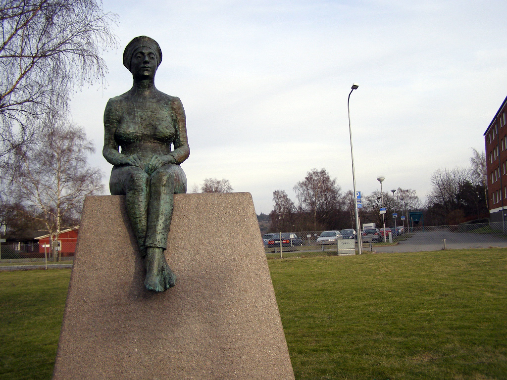 Waiting, by Britt Ignell, sculpture in bronze, 2001. Lantmilsgatan tram stop, Gothenburg, Sweden.